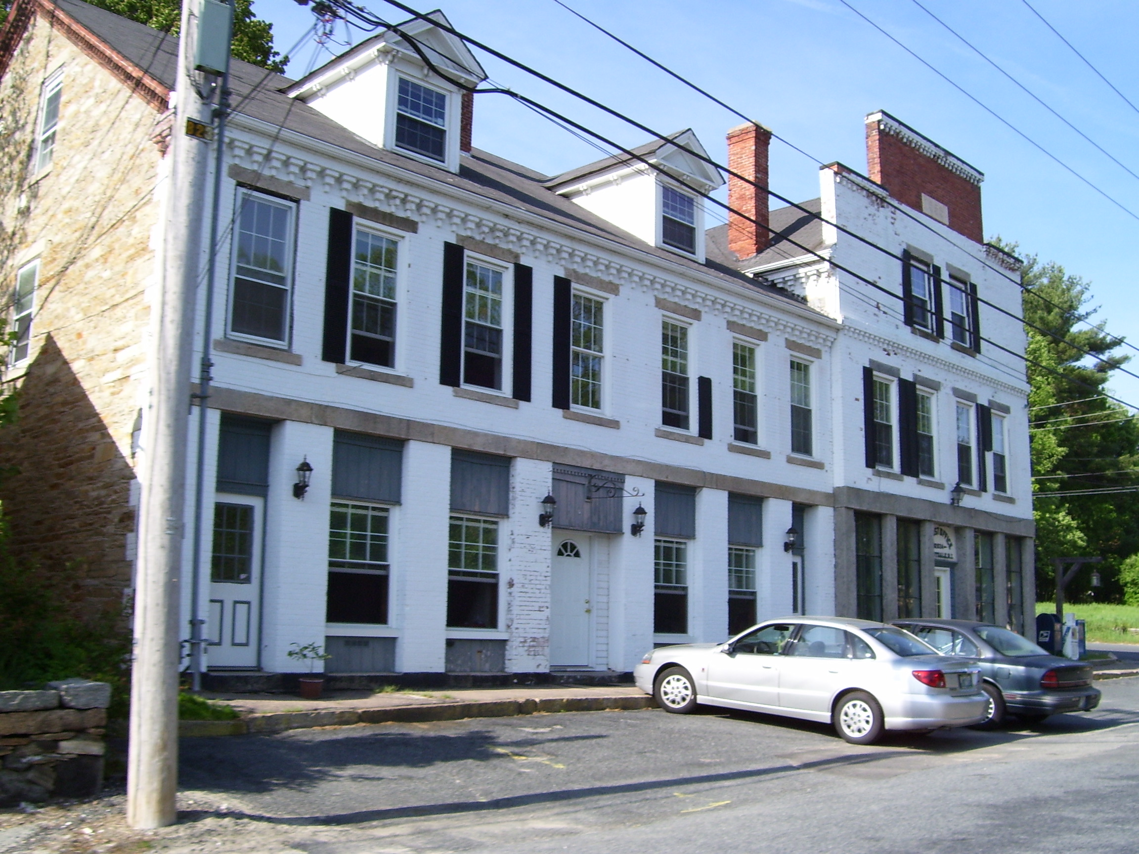 This is my 2008 photo of the Forestdale Mill Block in Forestdale (North Smithfield) Rhode Island.